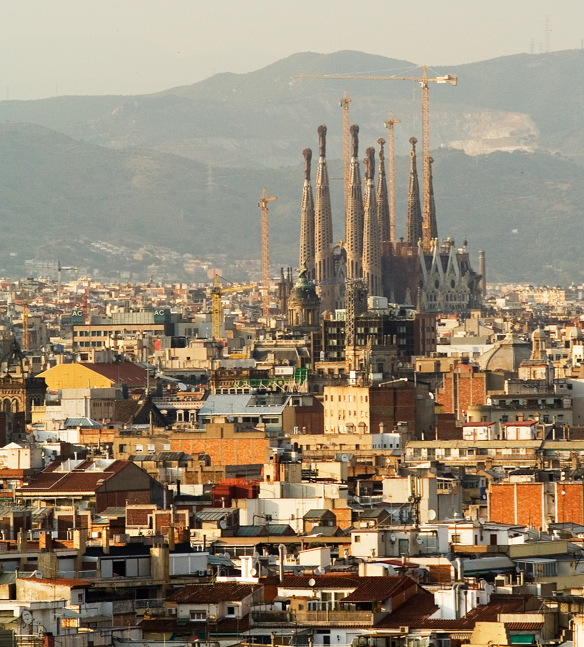 Sagrada Familia and Eixample viewed from Montjuic, Barcelona, Spain (June 2006)